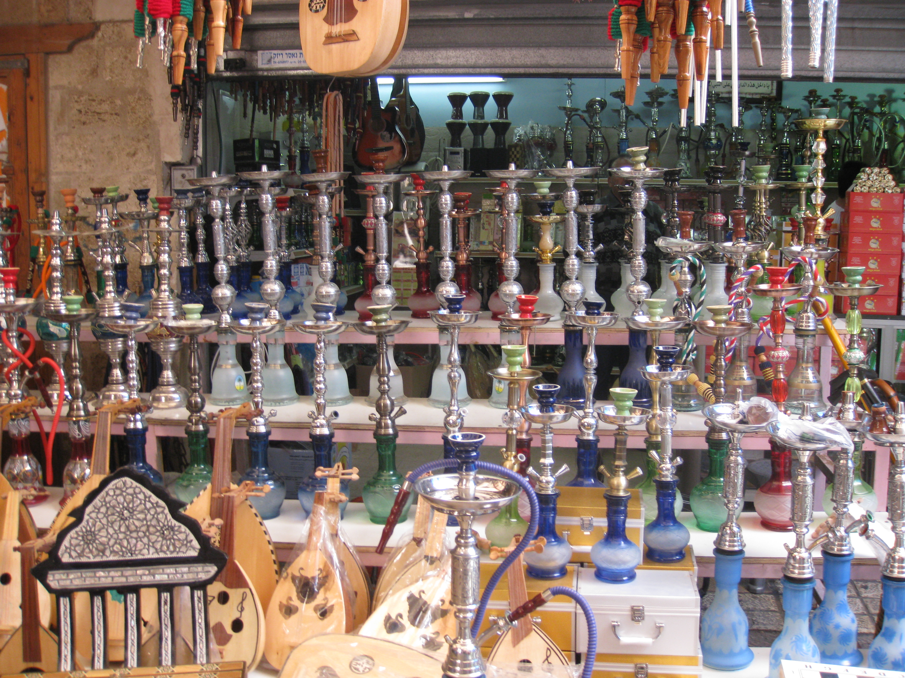 Acre's Market שוק עכו